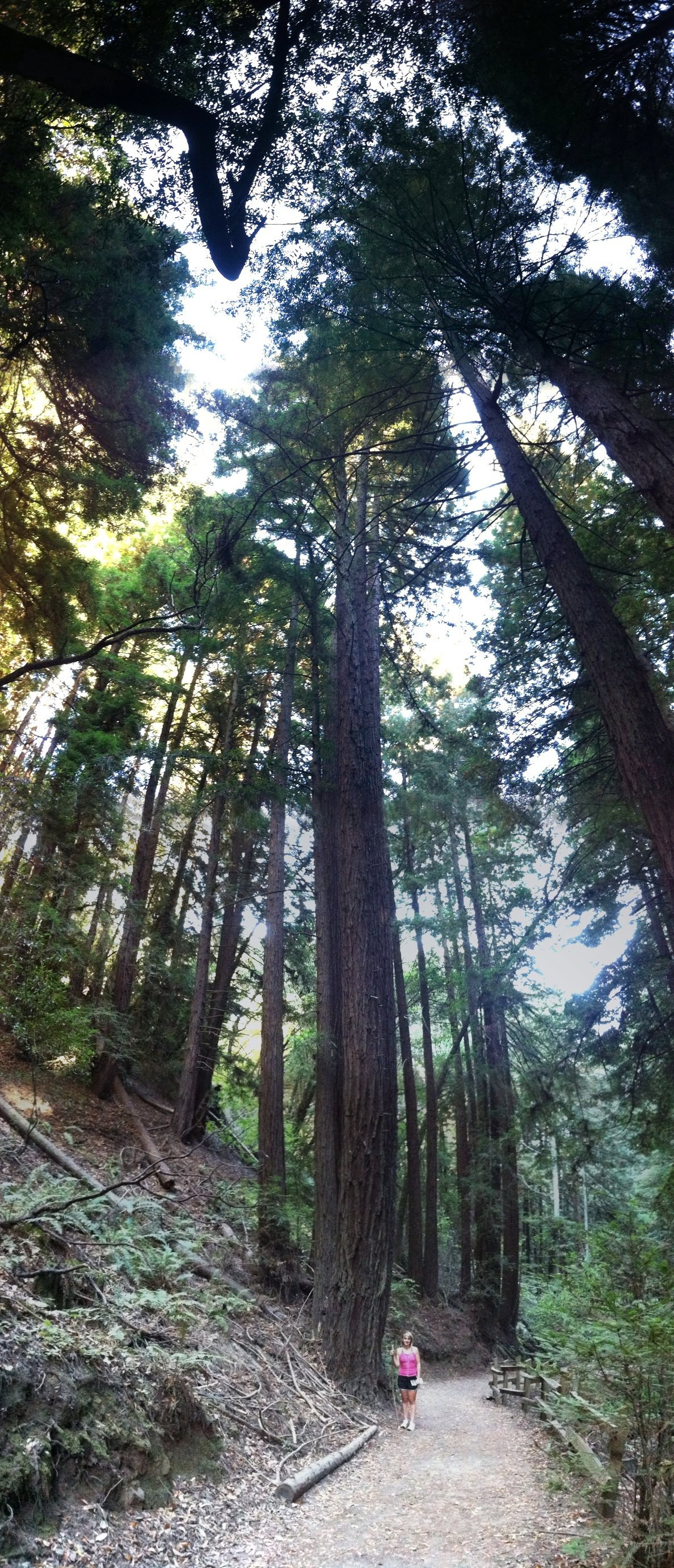 A redwood tree in oakland California with a person at the bottom for comparison